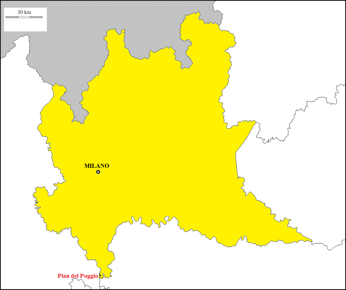 Position of Pian del Poggio, Santa Margherita di Staffora (PV)